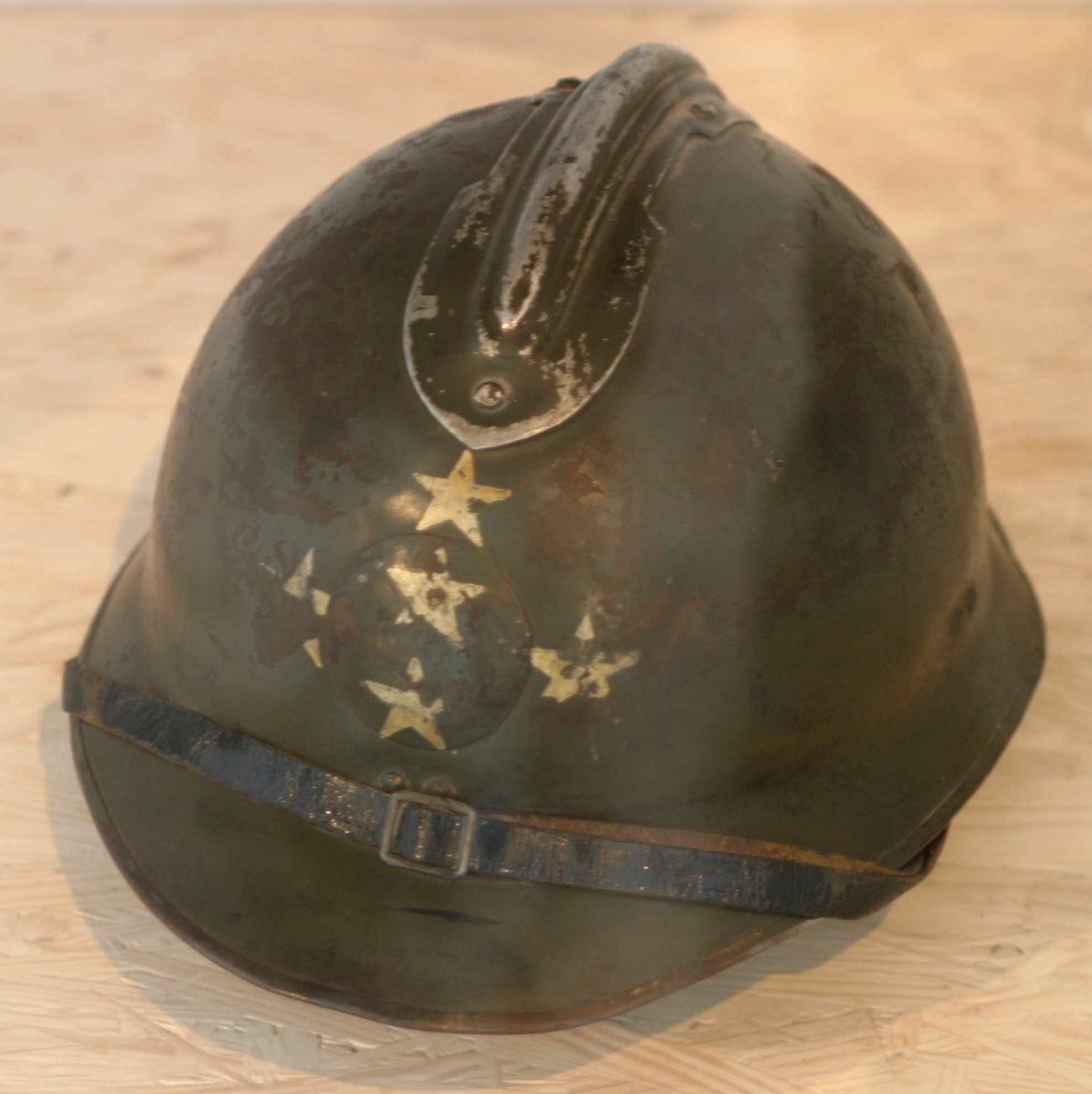 This image was taken at the Musée de l'Armée, Paris.